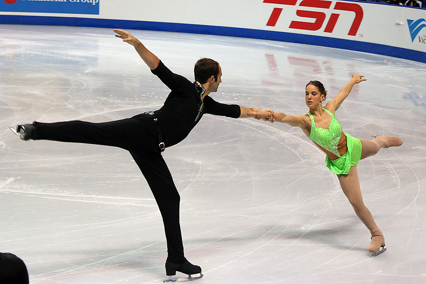 Tiffany Vise & Derek Trent at the 2006 Skate Canada International.